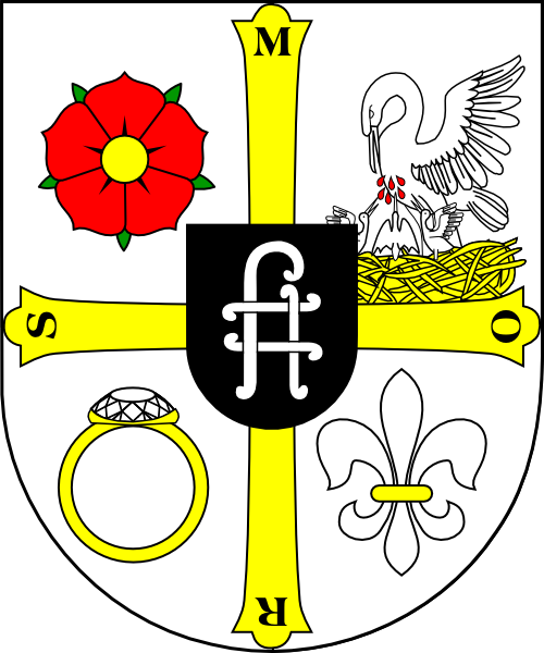 Coat of arms (shield only) of Oswald Anton Andreas Neumann, abbot of Vyšší Brod, Czech Republic (1795 - 1801). Based on HLINOMAZ, Milan: Znaky opatů Cisterciáckého opatství Vyšší Brod, In: Heraldická ročenka 2015, p. 170.